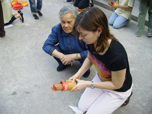 The act of "Kau Cim" at Wong Tai Sin.